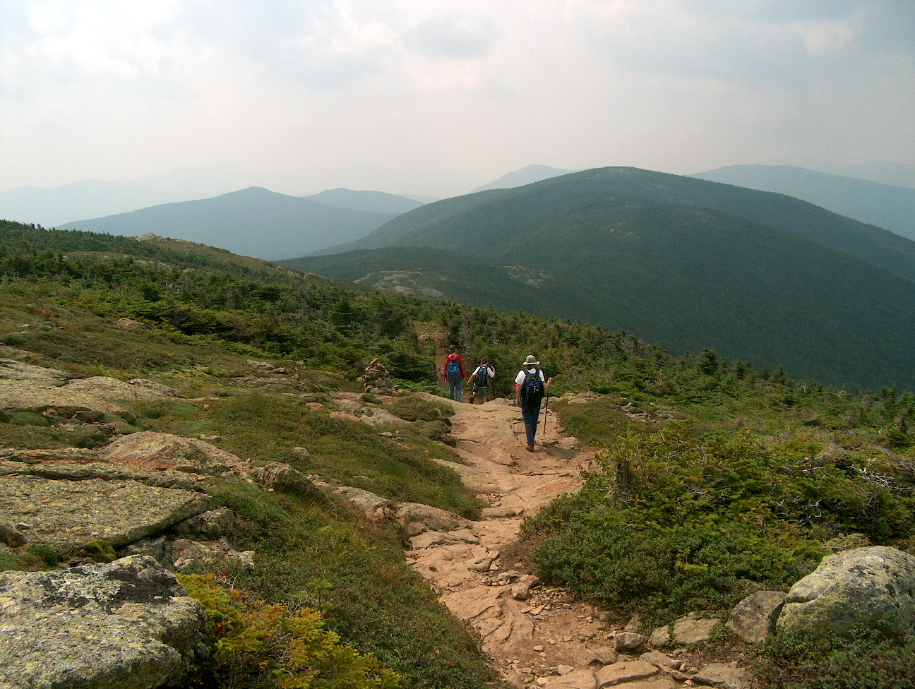 The Appalachian Trail in the southern Presidential Range of New Hampshire, facing south towards Mount Pierce. Photo by Ken Gallager, August 2004.